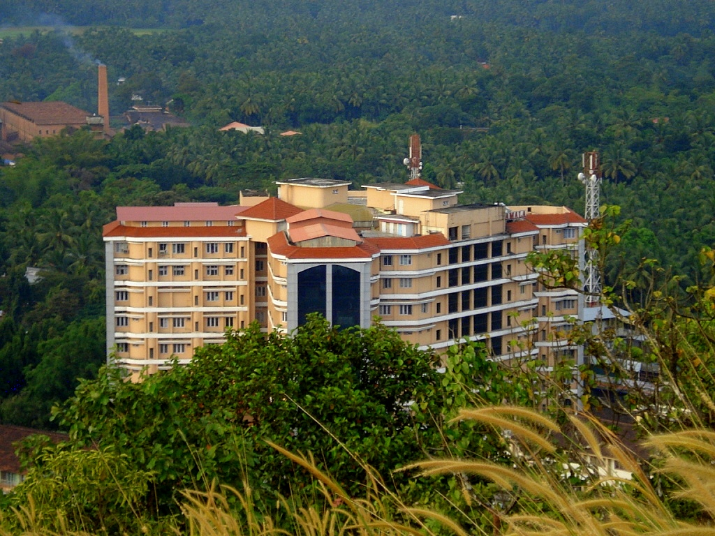 Amala Medical College, Thrissur